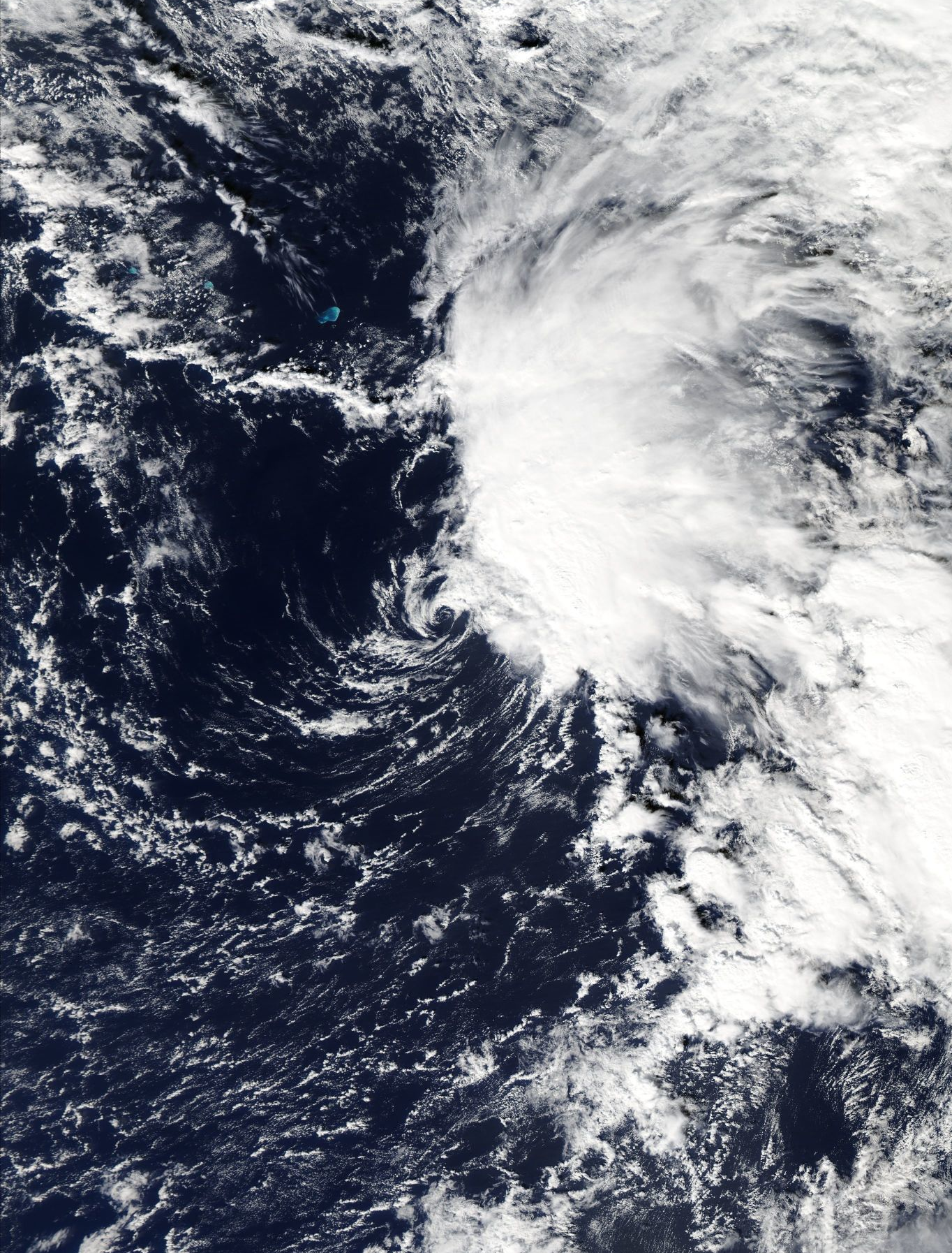 Tropical Storm Omeka in the Central Pacific on December 20, 2010.